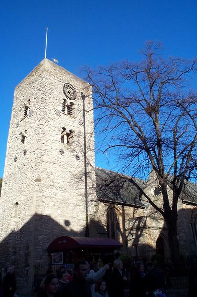 11th-century Anglo-Saxon west tower of the Church of England parish church of St Michael at the North Gate, Oxford